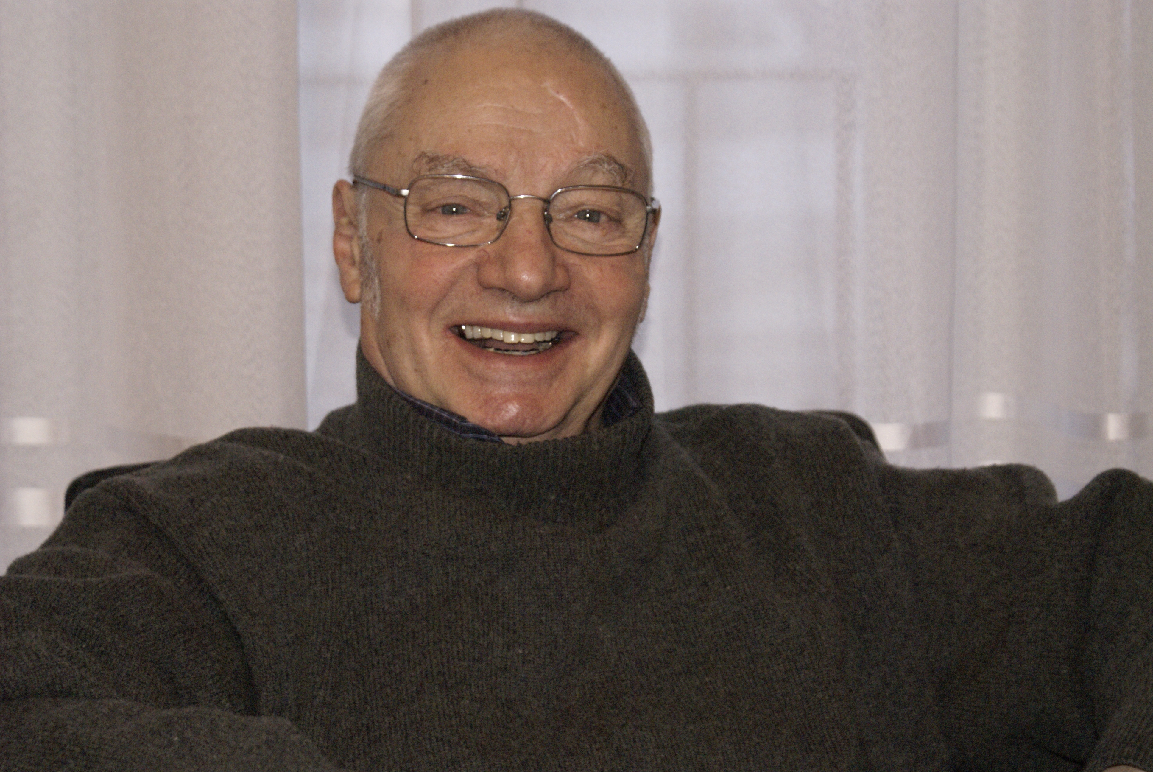 George Bălăiță photo at "headquarters" of Bucharest Polirom Publishing House